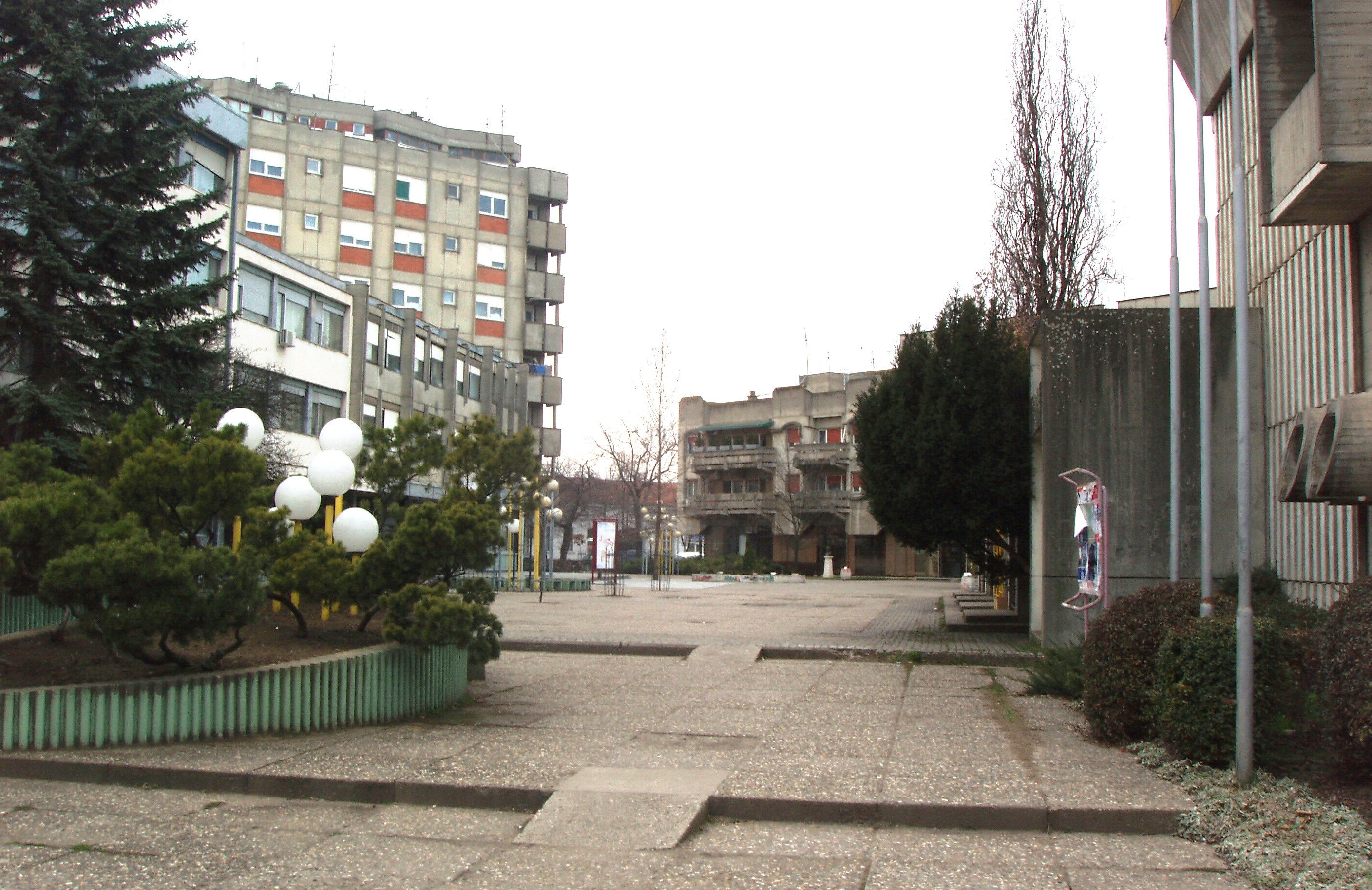 Sremska Mitrovica - Vojvodina's Brigades Square